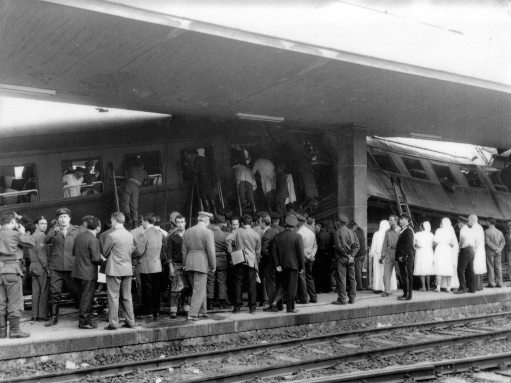 1962 Voghera rail crash